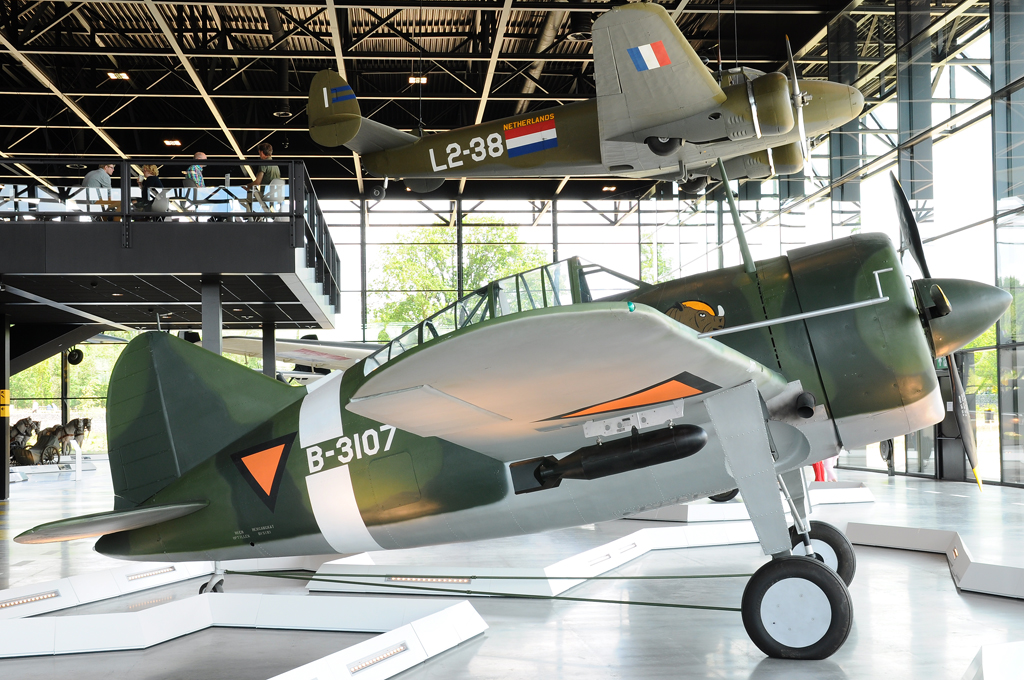 B-339C Buffalo replica B-3107 Royal Netherlands Air Force